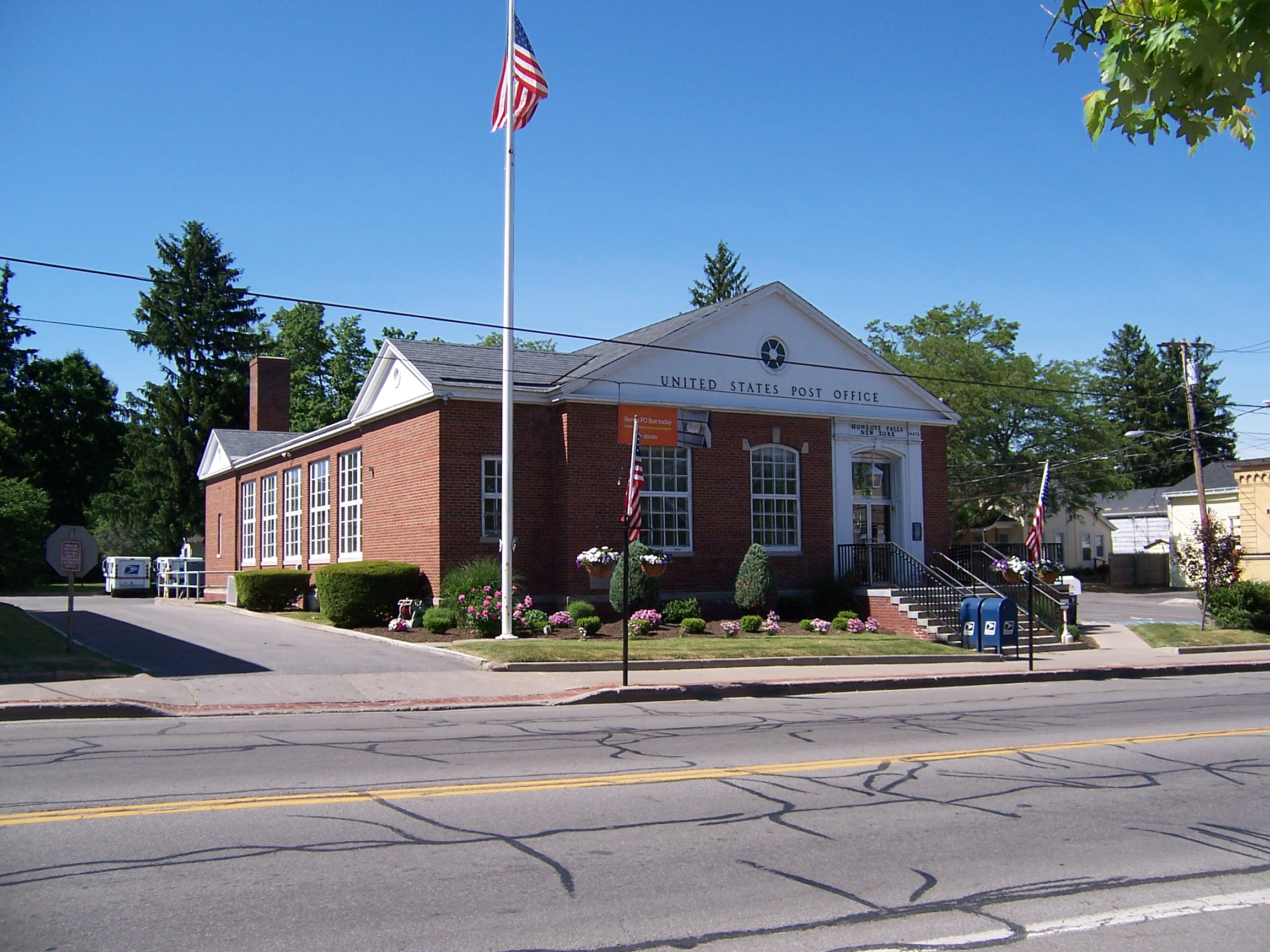 The U.S. Post Office in the village of Honeoye Falls in Monroe County, New York. It was built in 1940 and is listed on the National Register of Historic Places. New York State Route 65 is in the foreground.